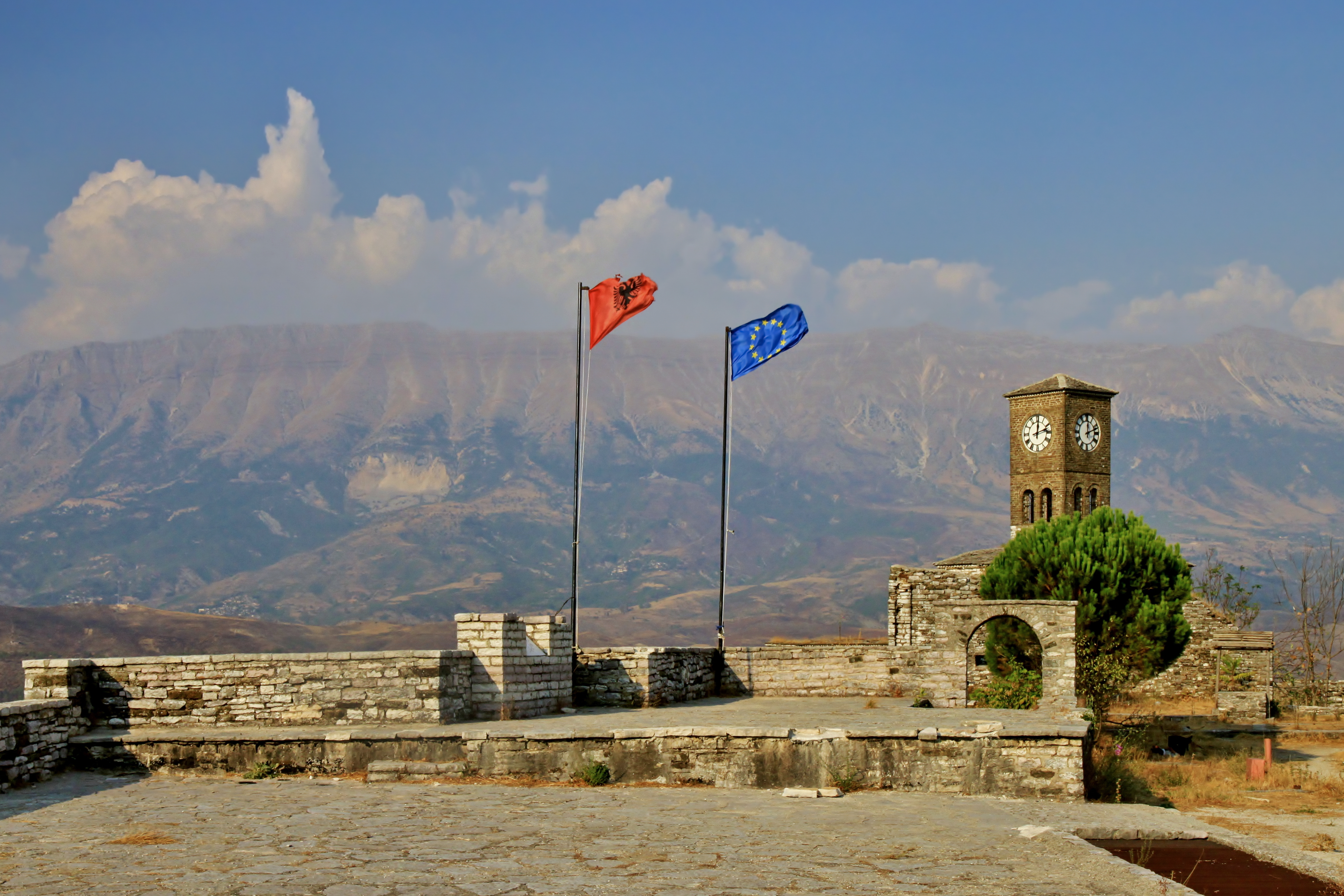 Clock Tower and flags. Gjirokastër Fortress, Gjirokastër, Gjirokastër County, Albania.